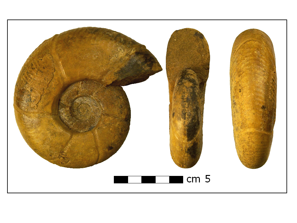 Specimen of ammonite belonging to genus Puzosia (Puzosia) Bayle. From Late cretaceous of Madagascar.